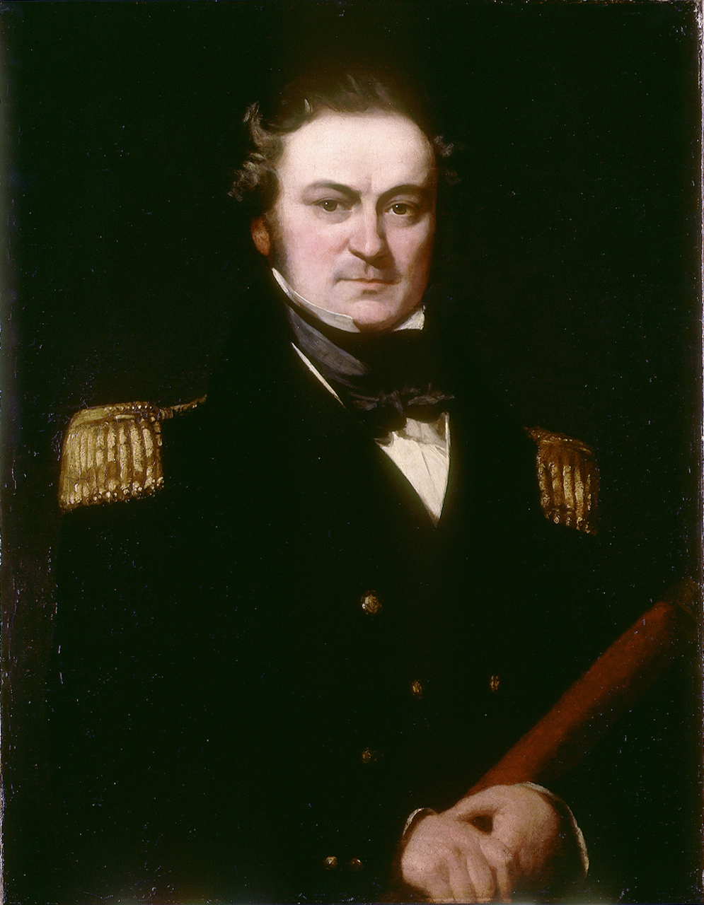 Captain William Edward Parry (1790-1855) oil on canvas 91.4 x 71.1 cm ca 1830